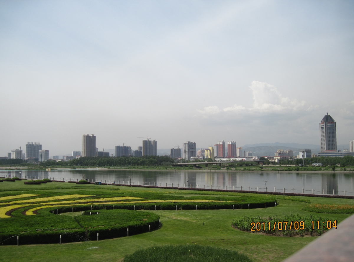 The Fen River Park on the Fen River, Taiyuan, Shanxi, China on 2011-07-09.